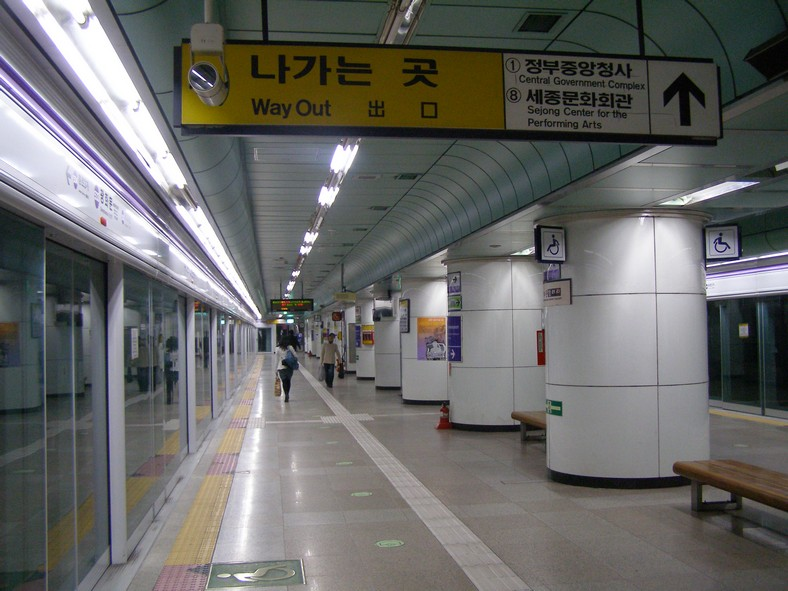 Gwanghwamun Station